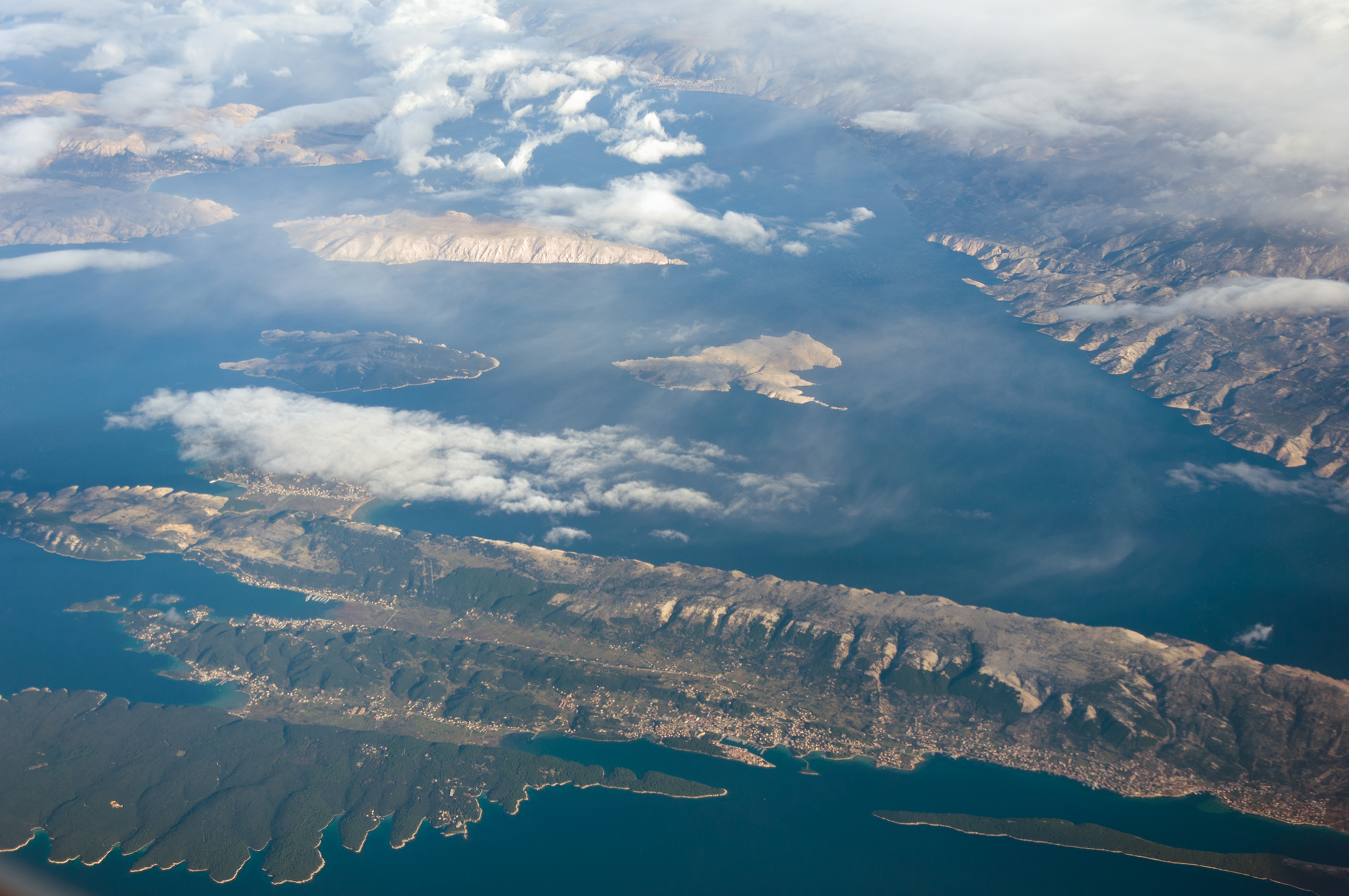 Croatia, aerial views along the coast of Croatia